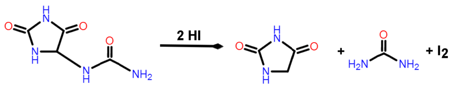 Hydantoin synthesis from allantoin